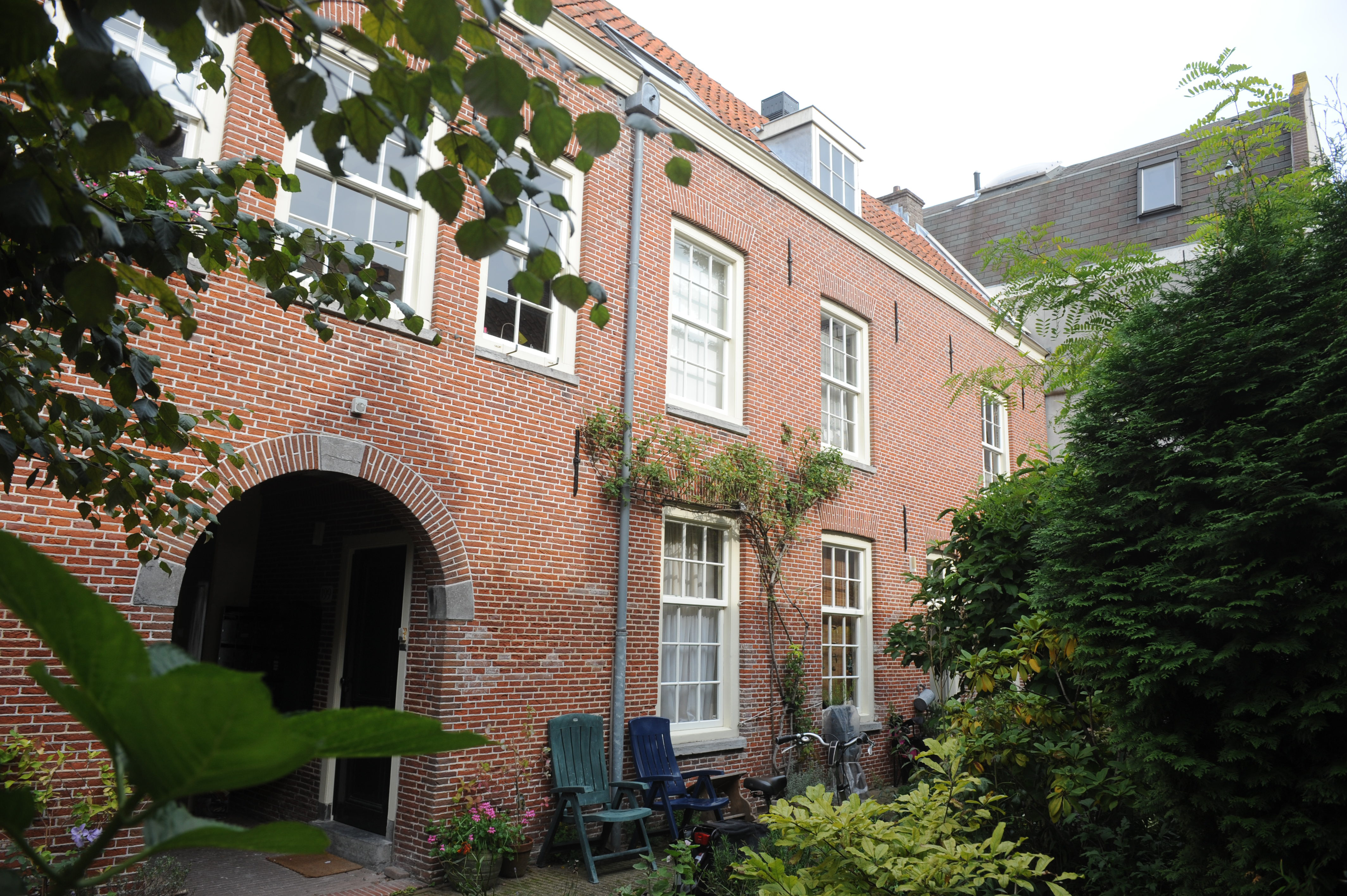 Hofje De Zeven Keurvorsten Tuinstraat Amsterdam, blik op binnenhof met poort naar Tuinstraat